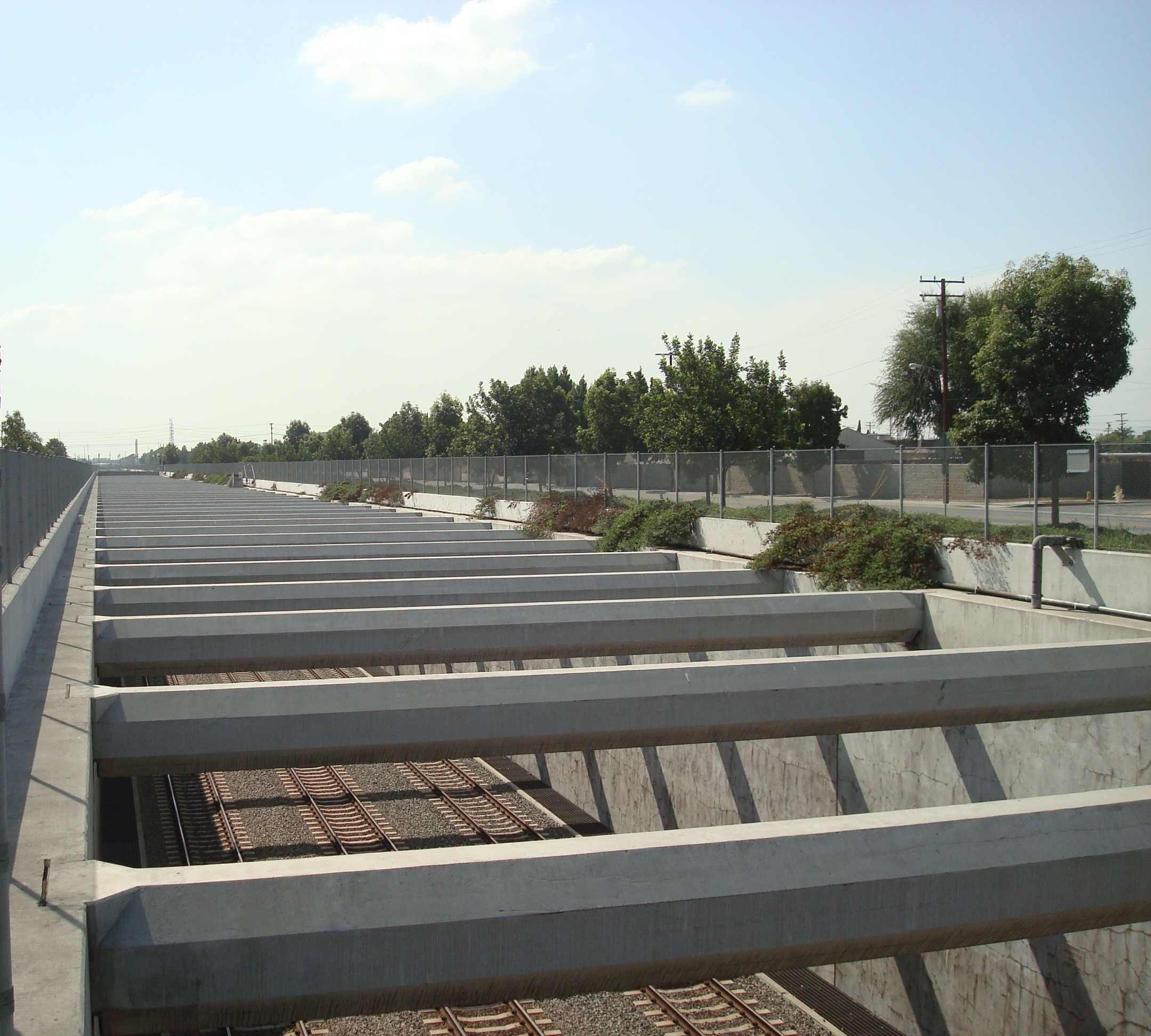 The Alameda Corridor looking south from Myrrh Street in Compton.